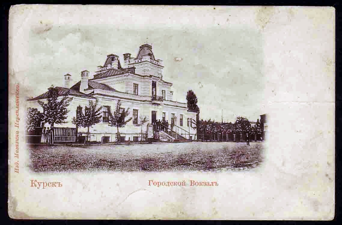 Kursk City Train Station (Kursk II)